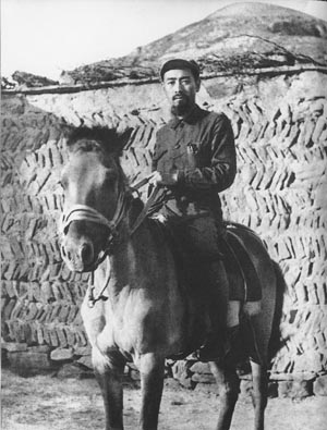 Zhou Enlai, Premier of China